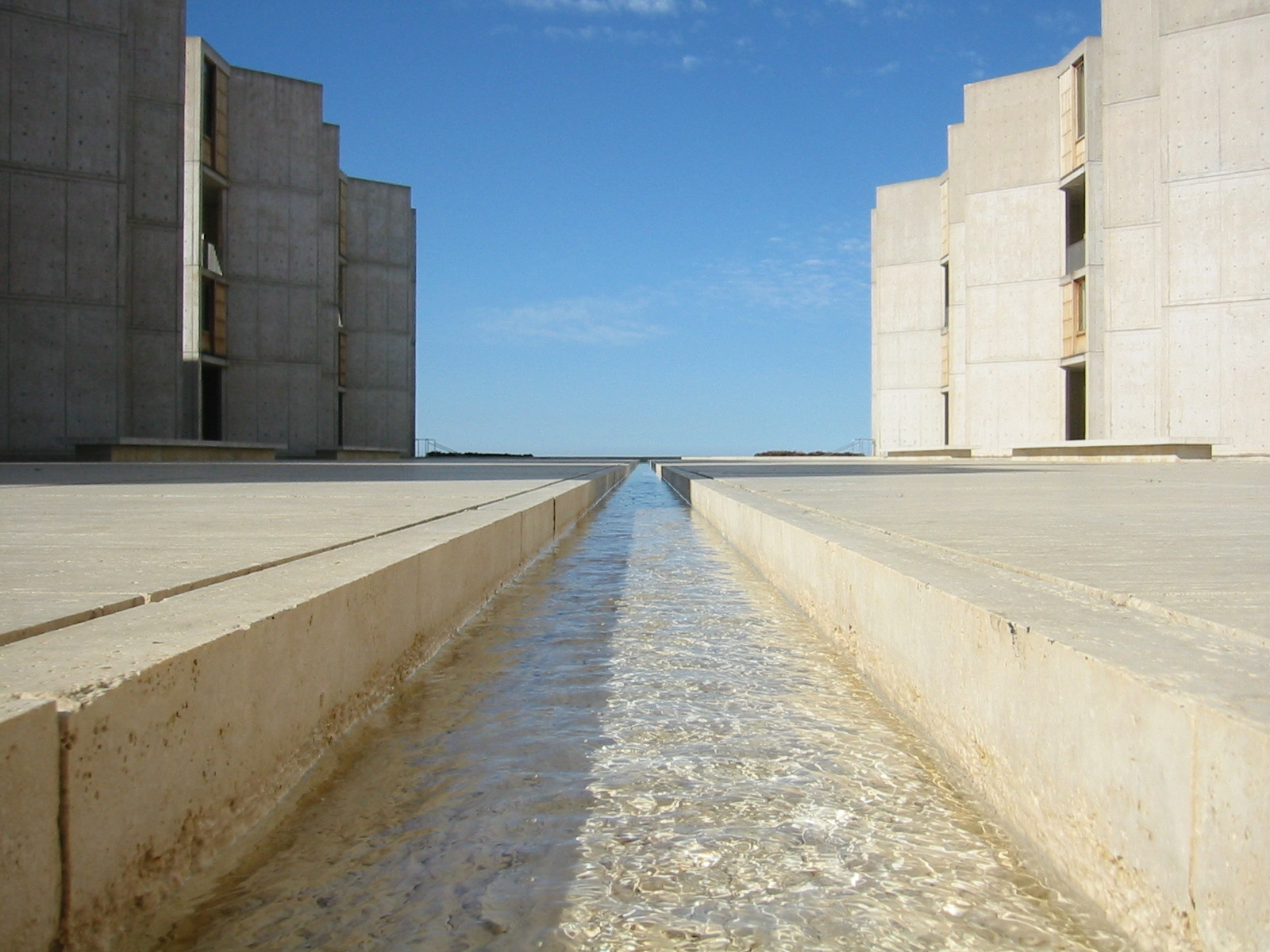 Courtyard rill fountain — Salk Institute, La Jolla, California.